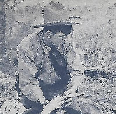 Arcade card featuring actor Joe Rickson from a silent short.